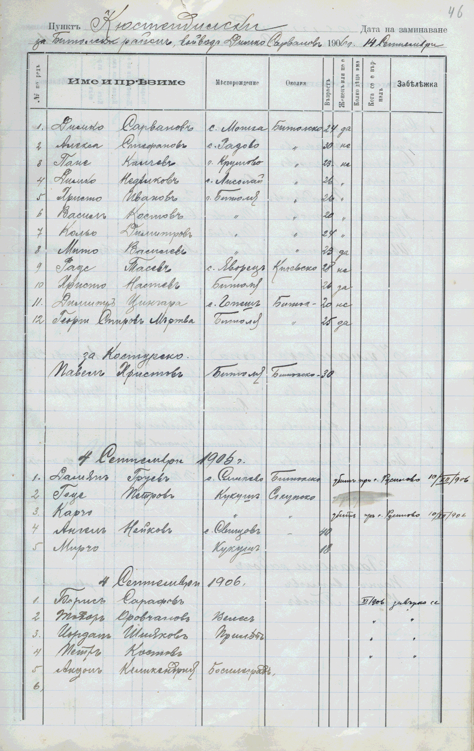 Diary of Kyustendil base of IMARO, list of chetas of Dimko Servanov, Dame Gruev and Boris Sarafov which left to Macedonia on 1906